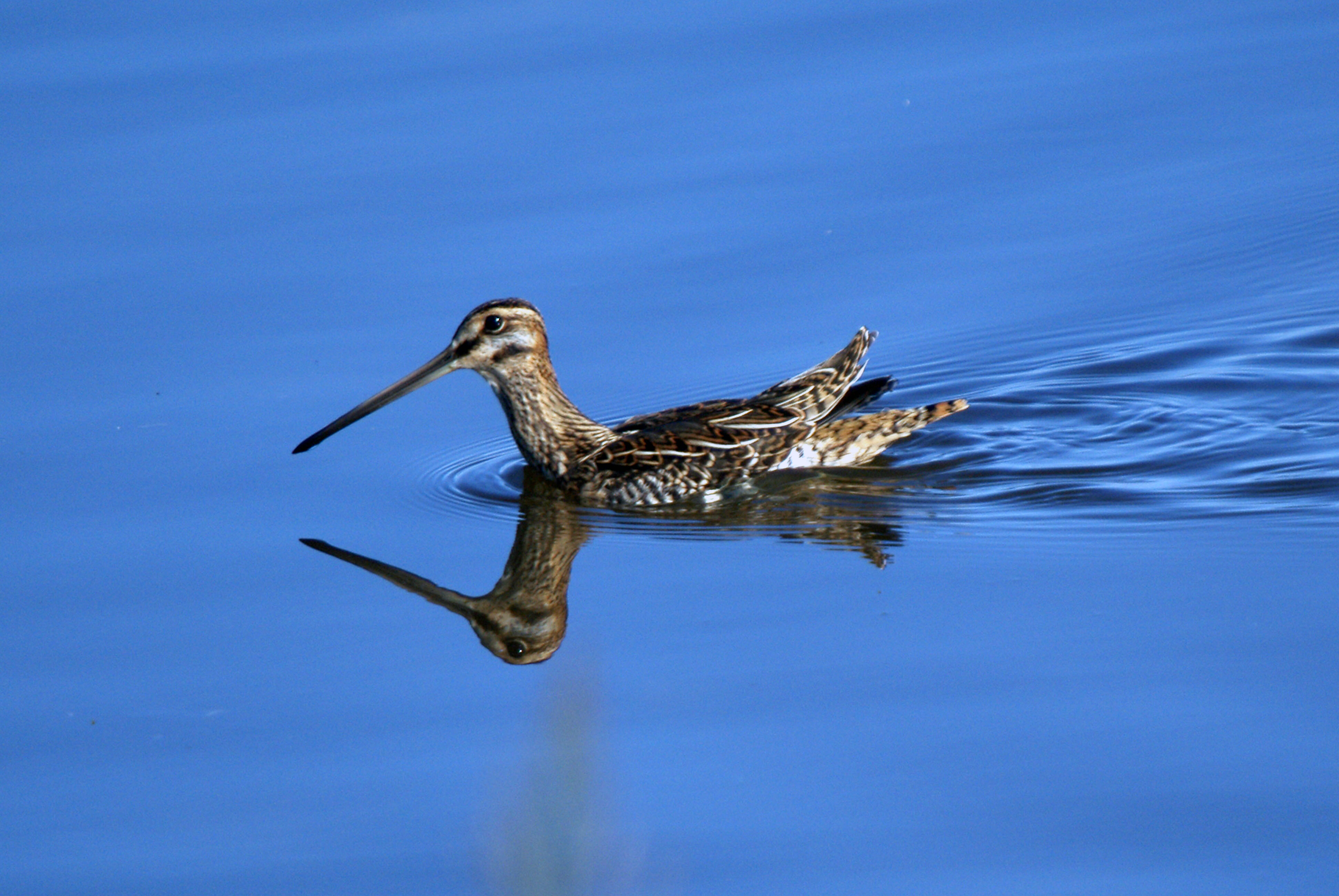 Snipe Gallinago gallinago, Marshside RSPB, Southport, Lancashire, England.